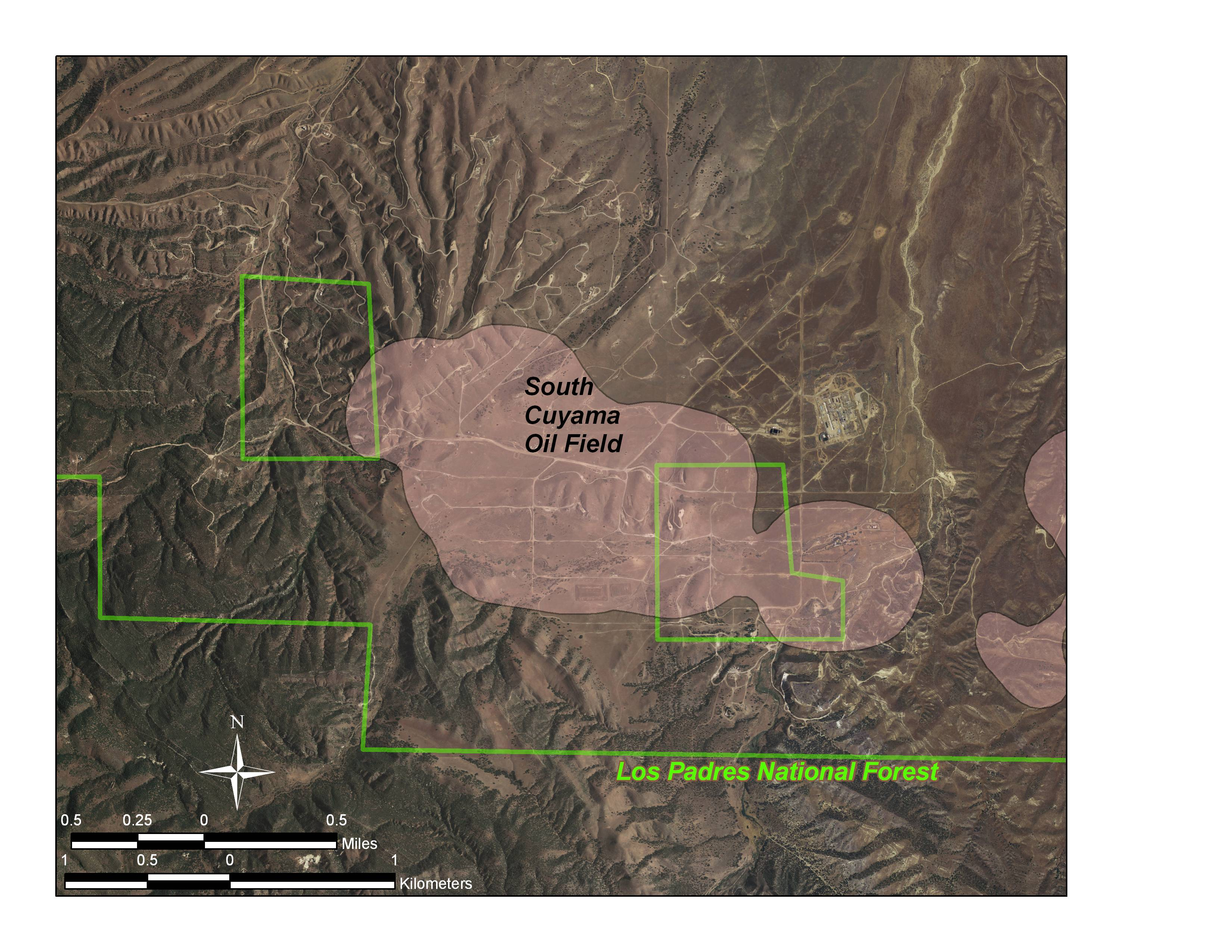 Aerial of South Cuyama Field, made by self in ArcGIS 9.2; all data is in public domain. The aerial photograph is from the 2005 National Agricultural Imagery Program, at 1-meter resolution; the file format is MrSID (.sid). These are available as county mosaics, and are public domain products of the U.S. Department of Agriculture.